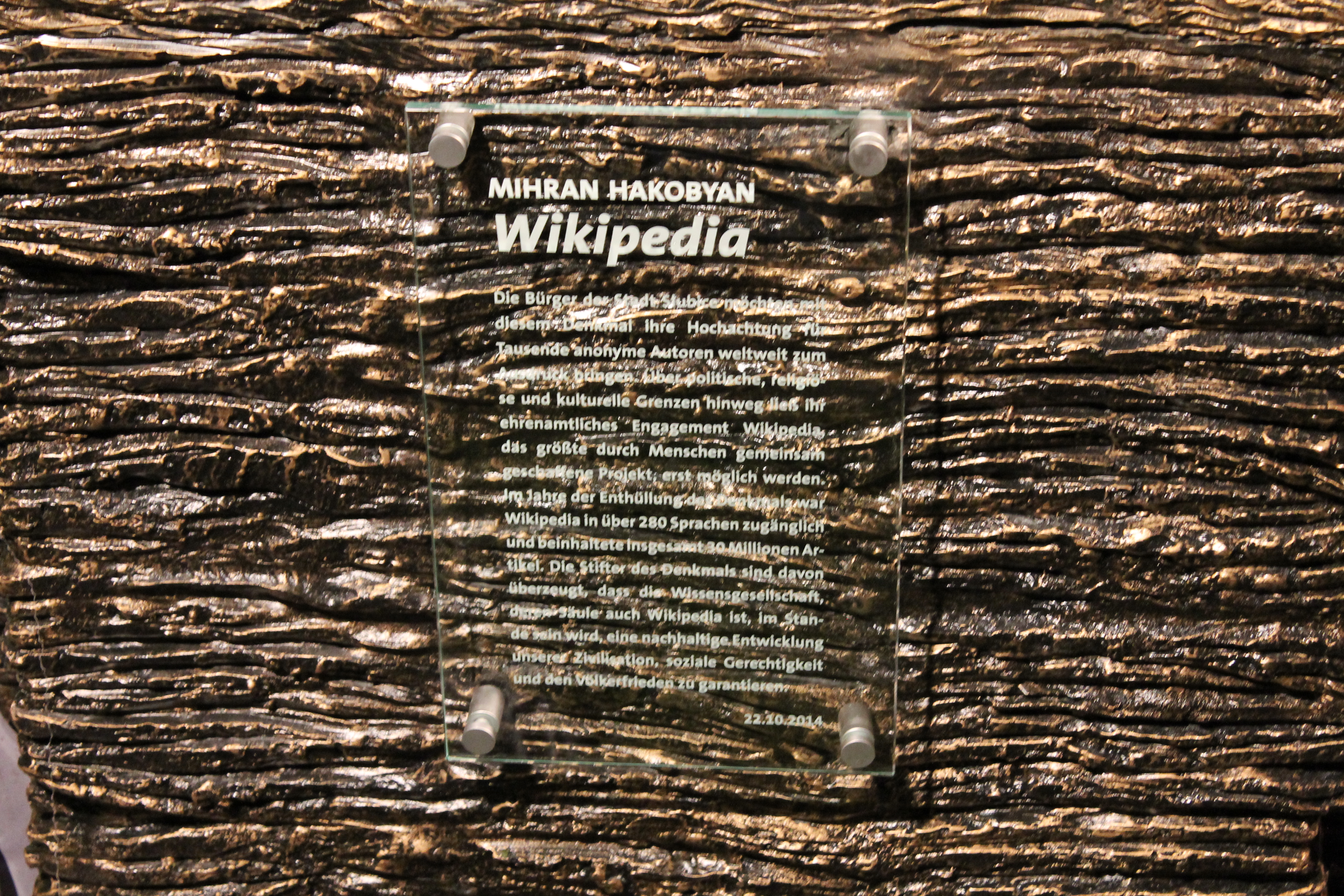 The unveiling of the Wikipedia monument.